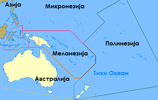 Map of the regions of Oceania on Macedonian language.